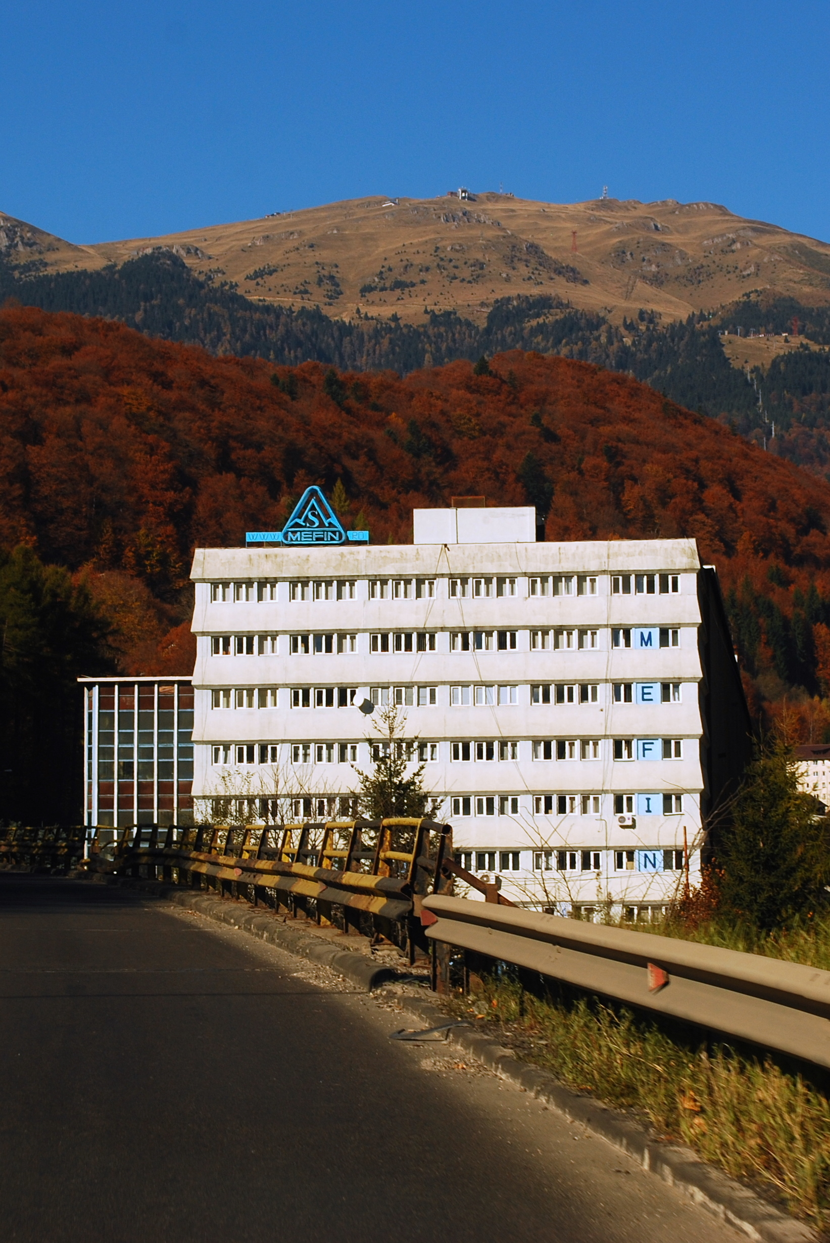 The "Mefin" factory in Sinaia, Romania